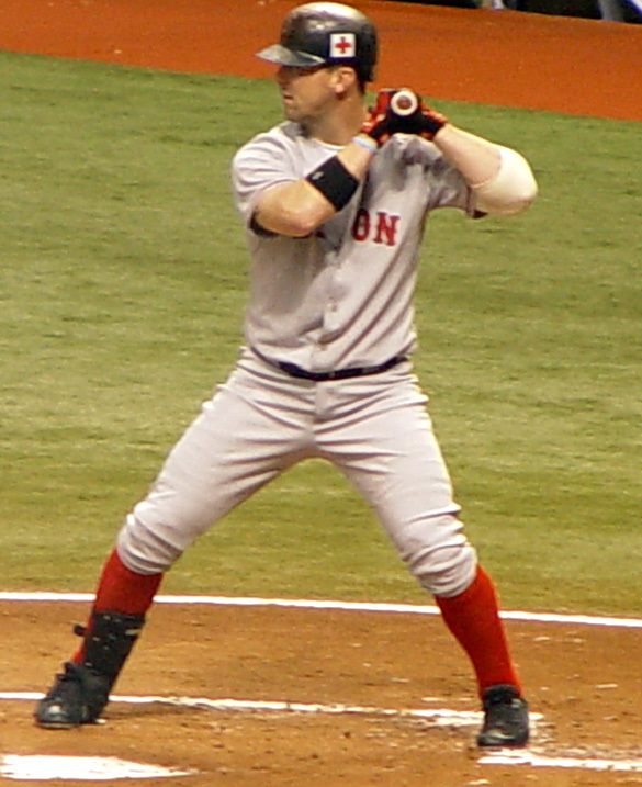 Trot Nixon at the plate, September 20, 2005. 21:45, 21 September 2005 . . Googie man . . 1000×750 (293 KB)